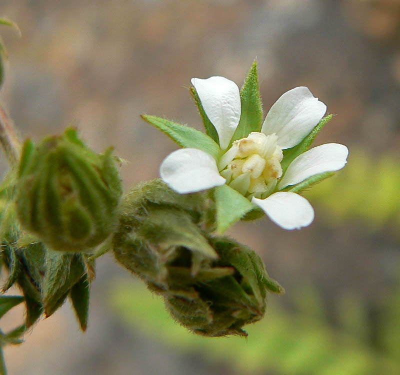 Photo of Potentilla clevelandii (syn. Horkelia clevelandii) at the Regional Parks Botanic Garden